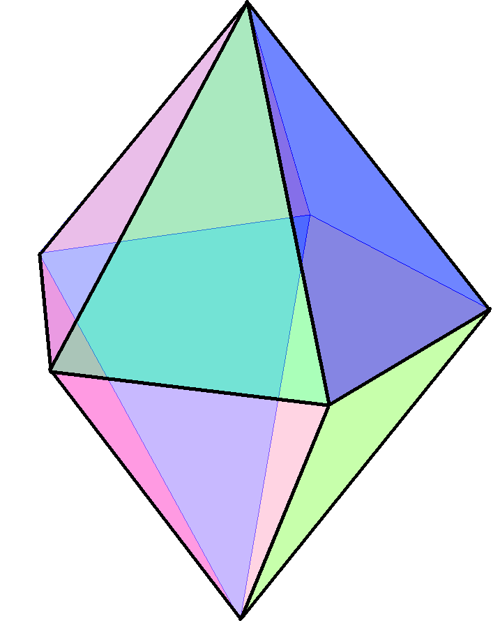 Pentagonal bipyramid VRML at [1]